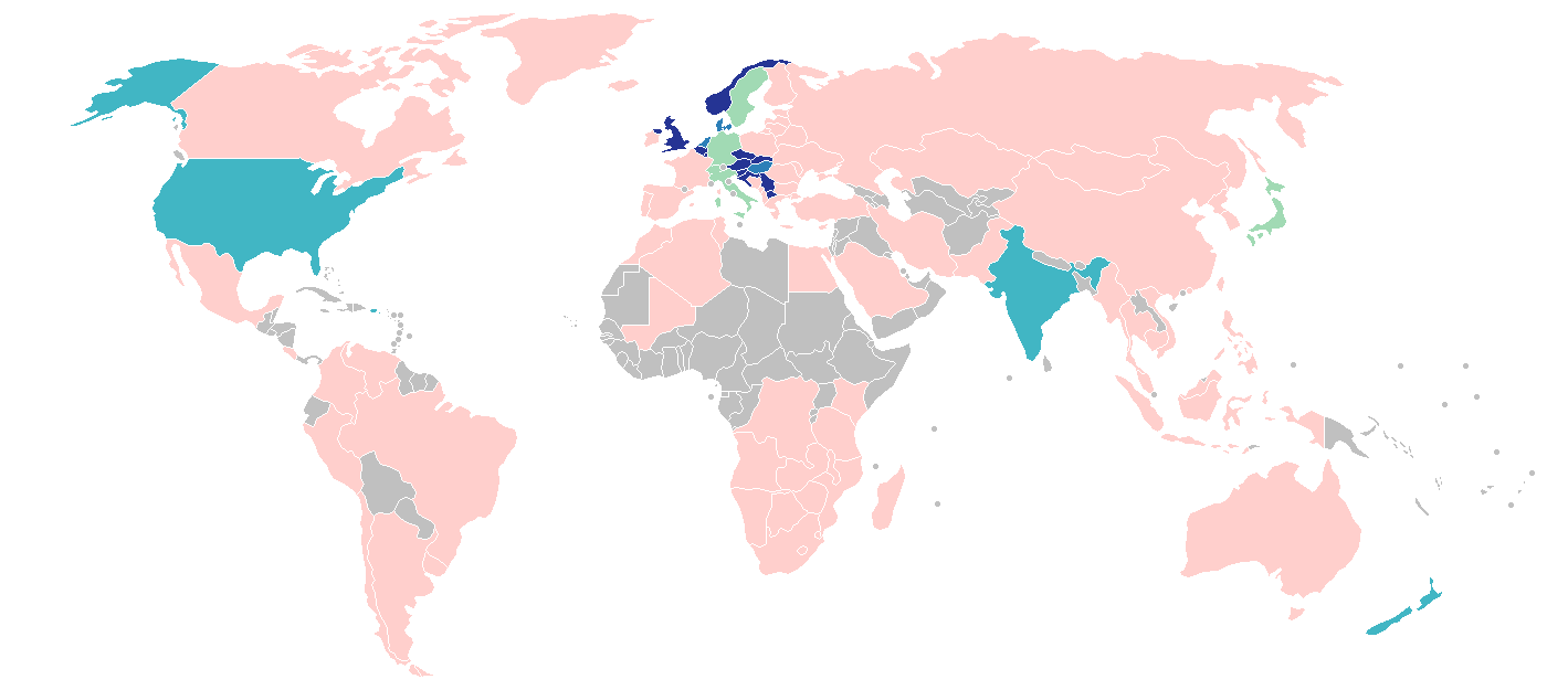 Worldwide laws regarding the legality of killing animals for fur Killing animals for fur is illegal Killing animals for fur is partially illegal1 Killing animals for fur is legal, but importing or selling fur is illegal Killing animals for fur is legal, but strict anti-cruelty regulations make fur farms uneconomic Killing animals for fur is legal and active Unknown 1some animals are excluded